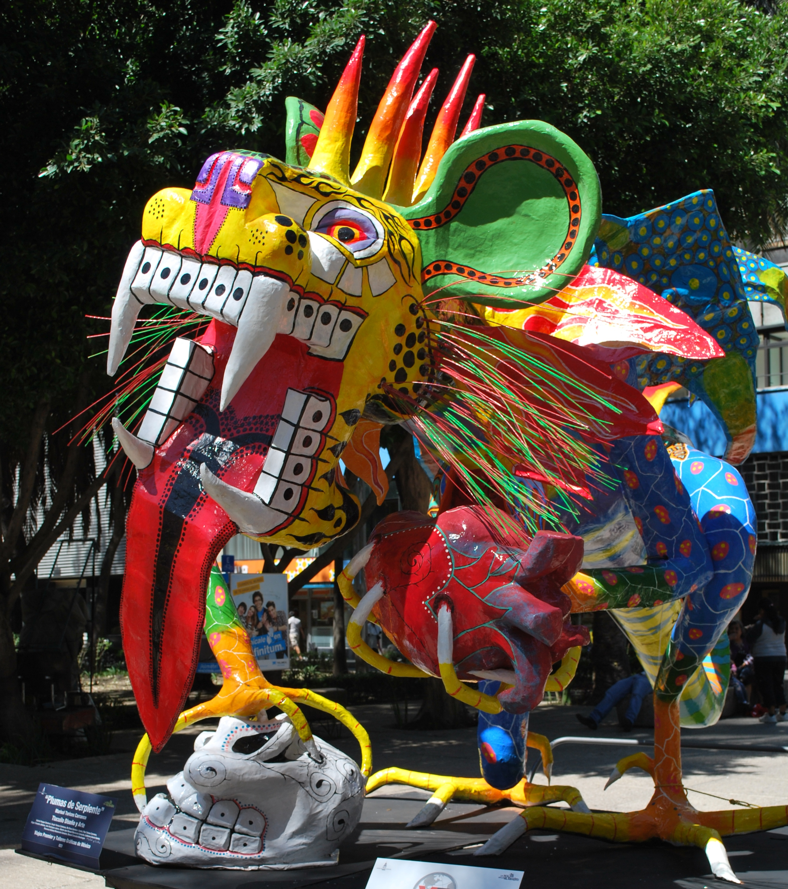 Alebrije on Paseo de la Reforma, Mexico City